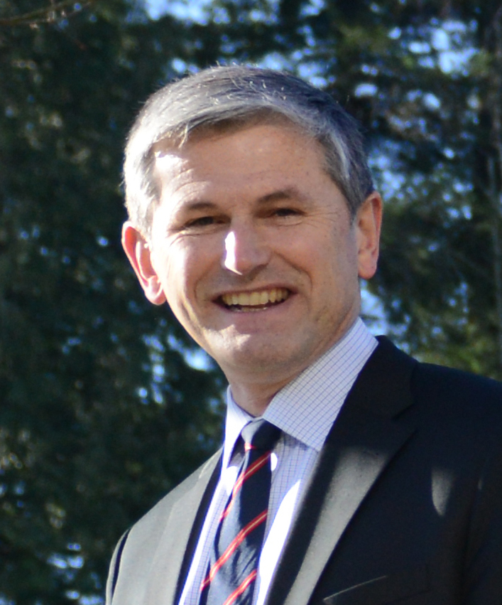 BC's Minister of Advanced Education, Andrew Wilkinson, tours UFV's Abbotsford campus